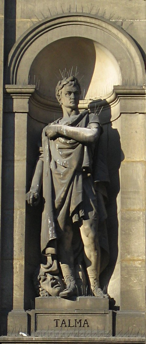 Talma, French actor. Statue in the Hôtel de Ville of Paris. Photo taken by Thierry Bezecourt in Jan. 2006.